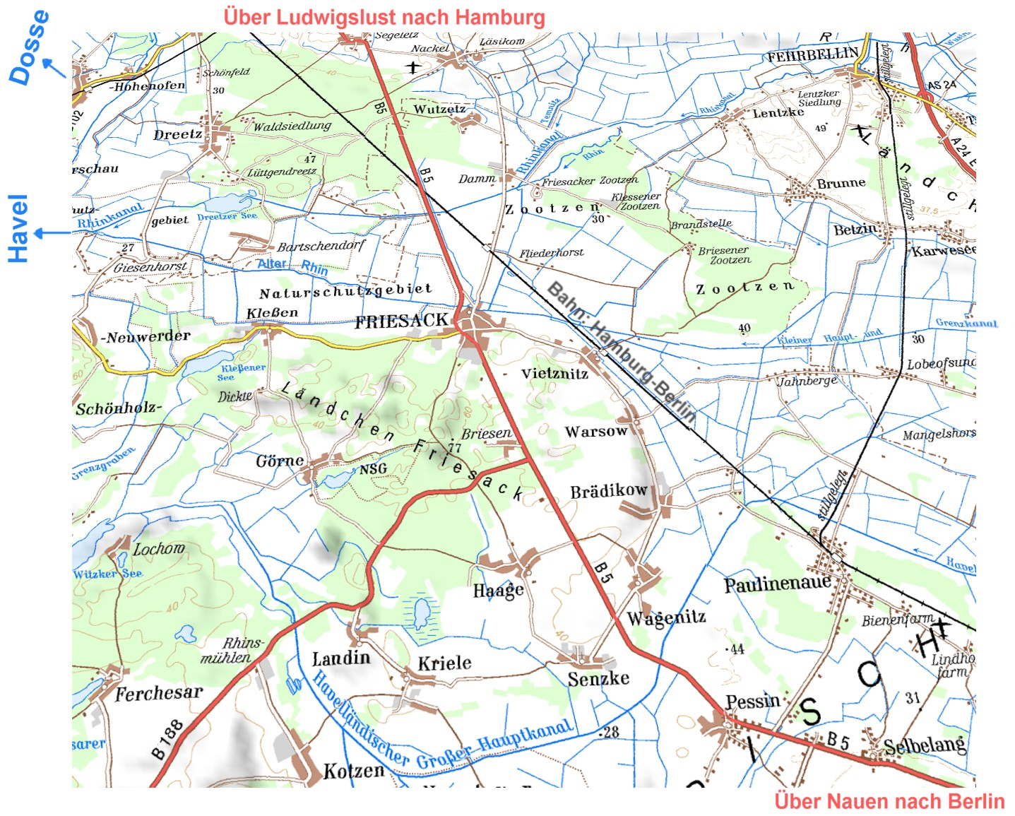 The map shows the enviroment of Friesack.